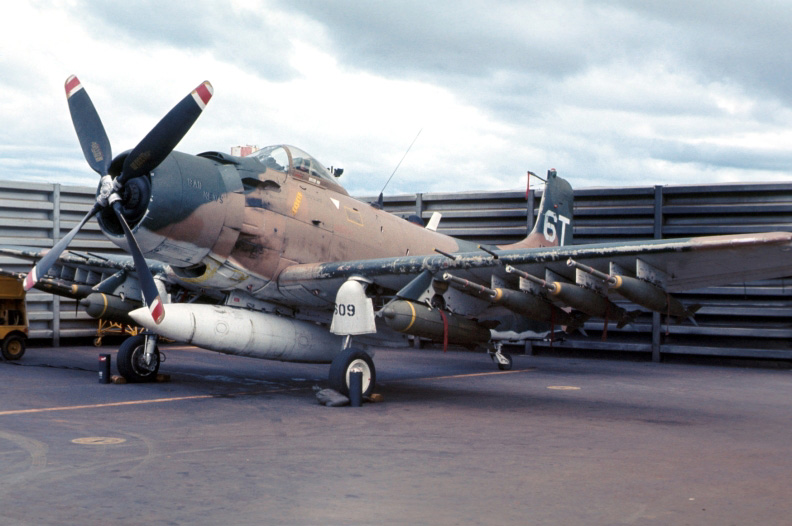 An armed U.S. Air Force Douglas A-1H (former U.S. Navy A-1H BuNo. 139609) nicknamed Bad News, in 1969. The "6T"-tailcode was found on 6th Special Operations Squadron Skyraiders at Pleiku in October 1969, the better known tailcode is "ET".[1] The aircraft is armed with six Mk 82 227 kg (500 lb) bombs with "daisy cutter"-fuzes and two Mk 20 "Rockeye" cluster bombs. The A-1H 139609 was later transferred to the South Vietnamese Air Force, [2] 518th Fighter Squadron, 23rd Tactical Wing, at Bien Hoa.[3]